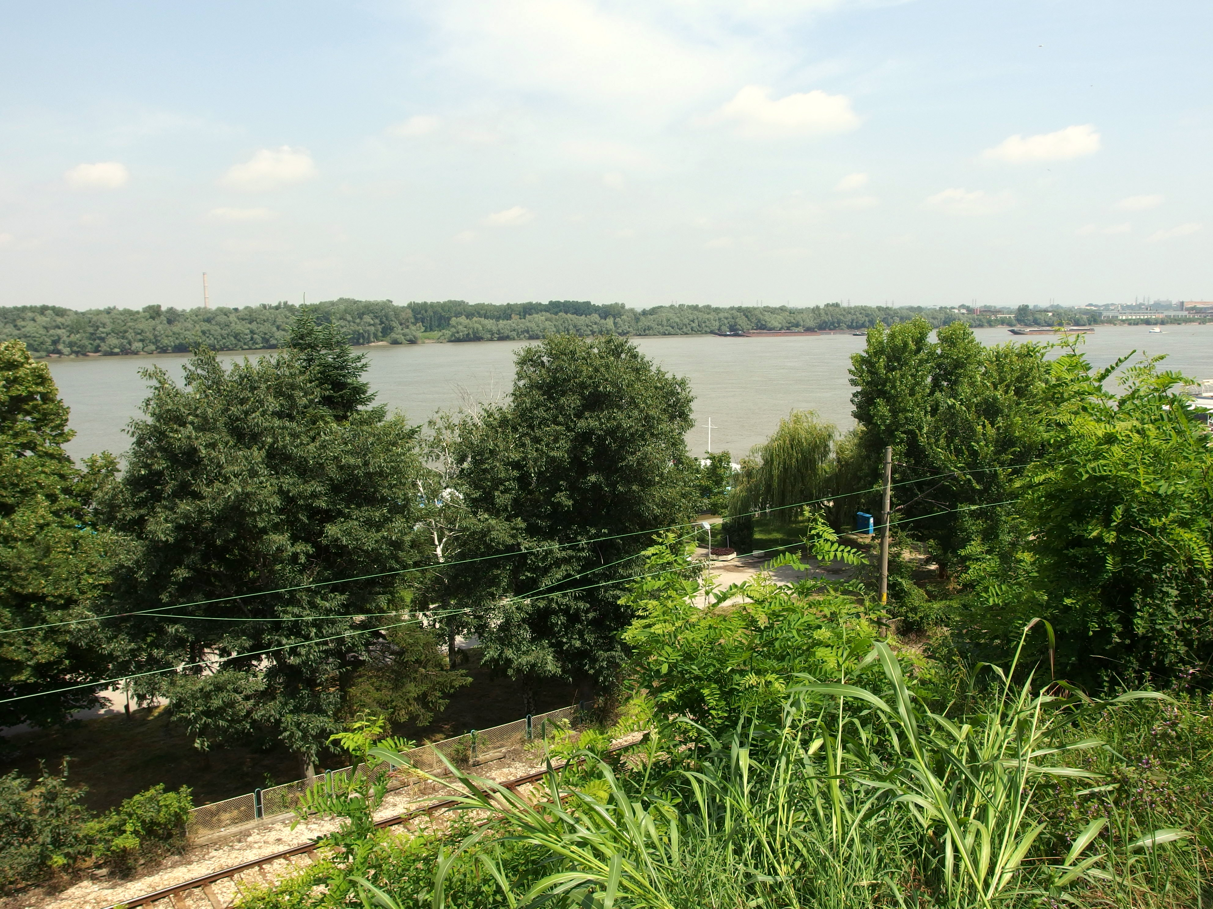 2014-06-25 in Rousse.